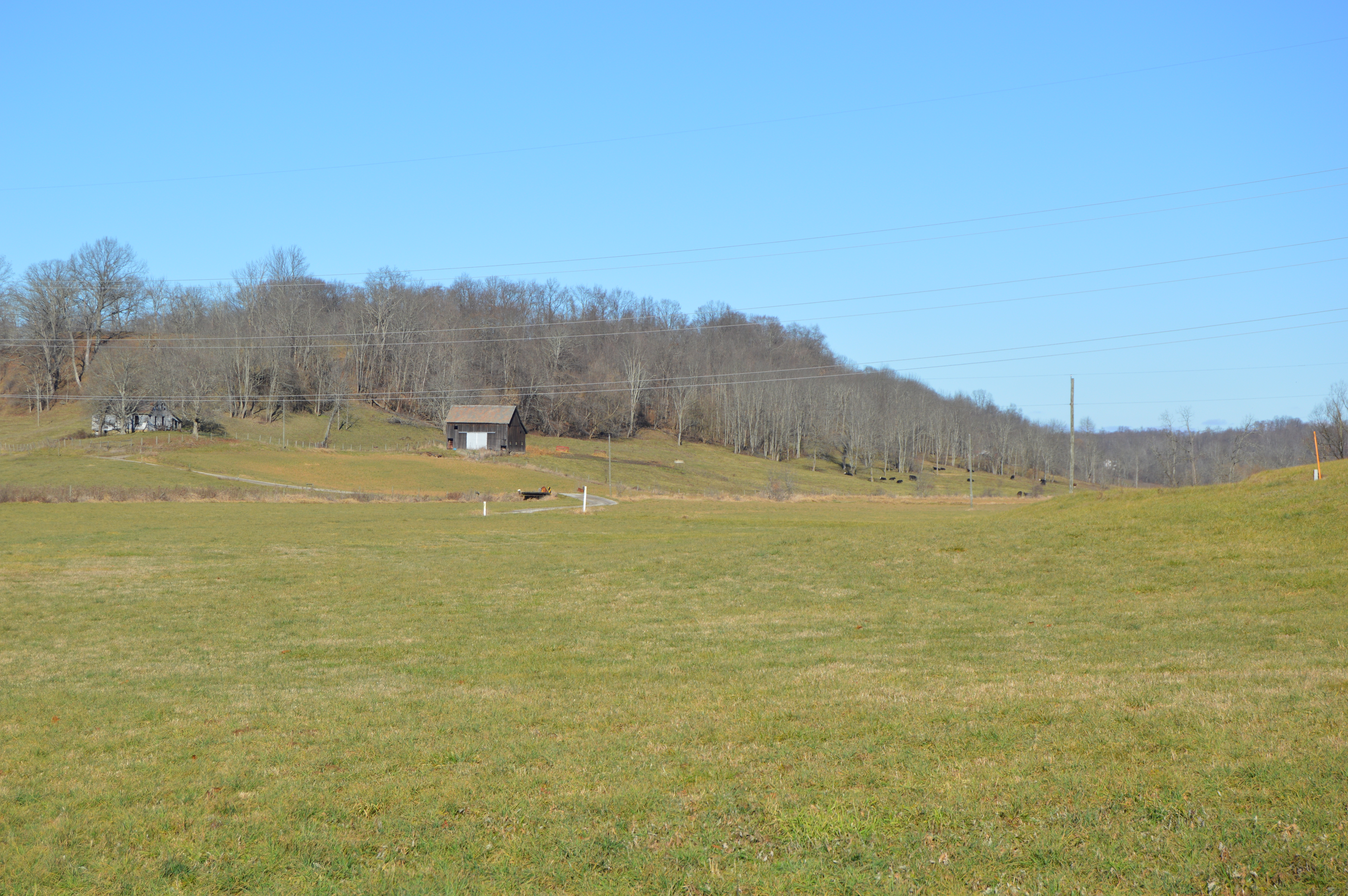 Fields in the valley of Little Wolf Creek, seen looking northwest from Big Oak Road in southern Malta Township, Morgan County, Ohio, United States.